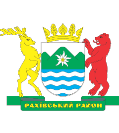 Coat of Arms Rahiv Raion (Zakarpattia oblast Ukraine)